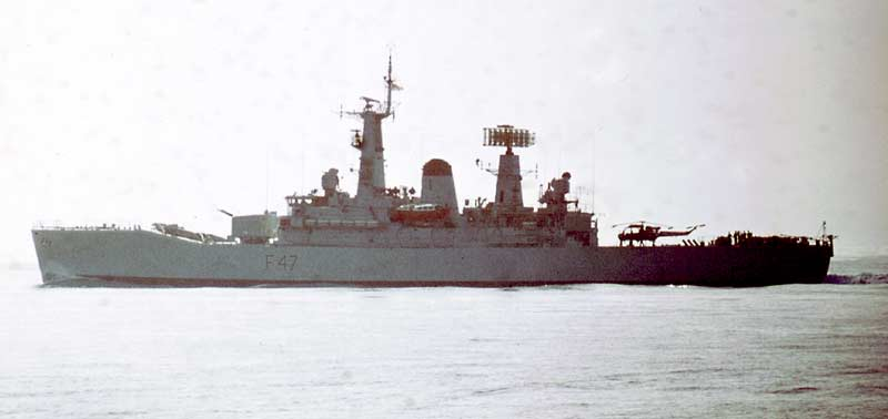 The Royal Navy Leander-class frigate HMS Danae (F47) in the Mediterranean Sea in January 1970.